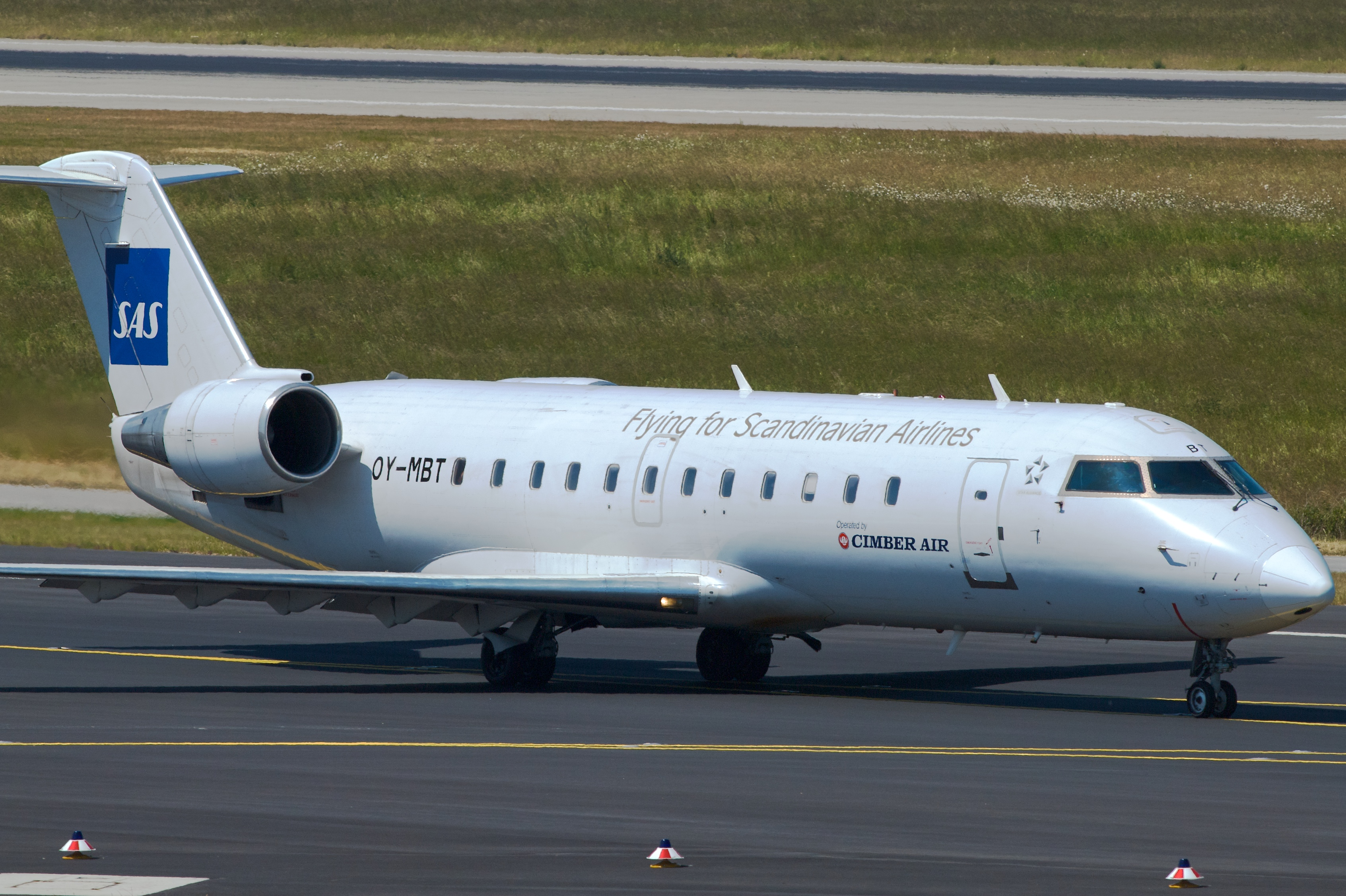 Cimber Air (SAS) CRJ-200 OY-MBT in Düsseldorf International Airport.